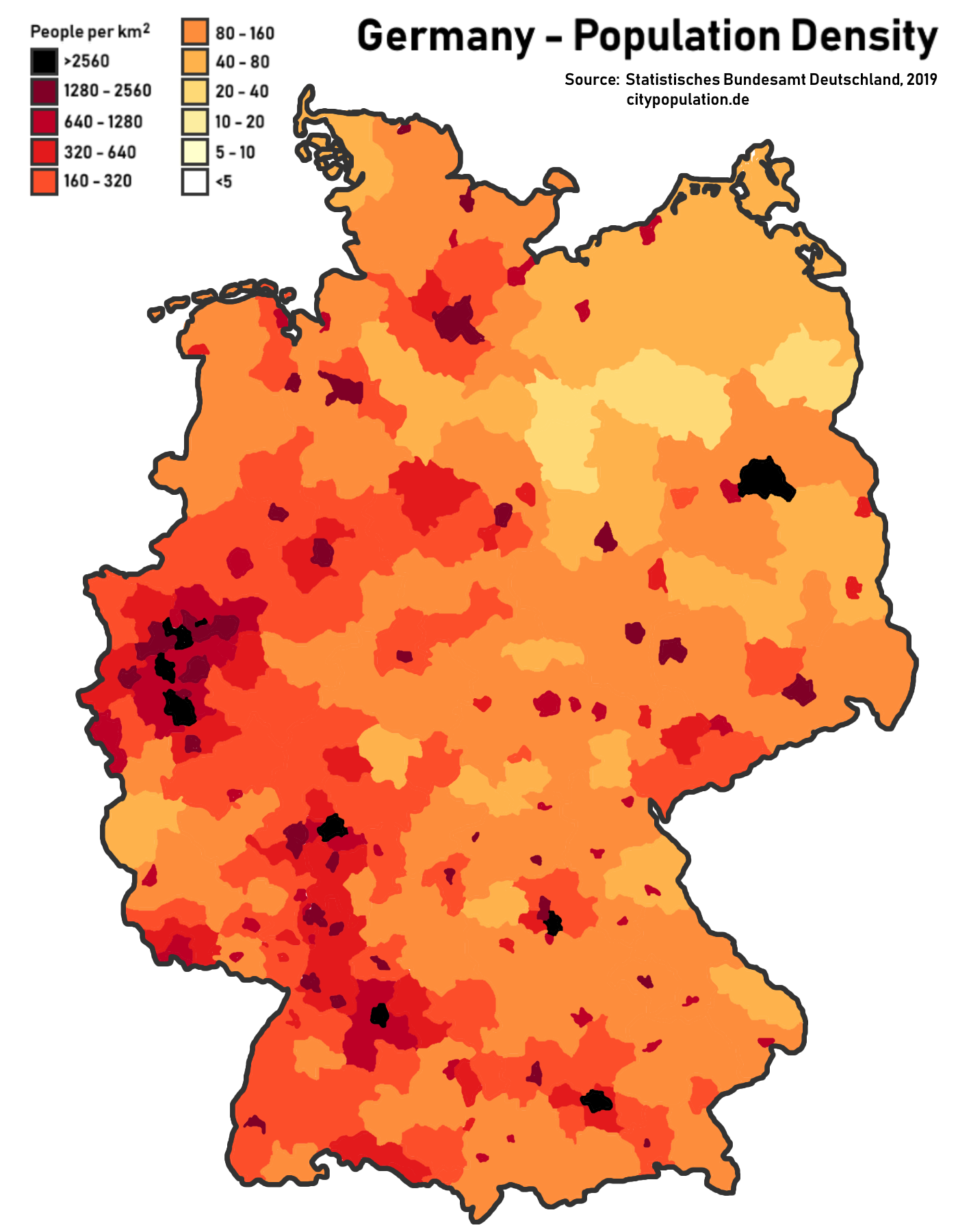 A map representing population density in German districts, as of 2019